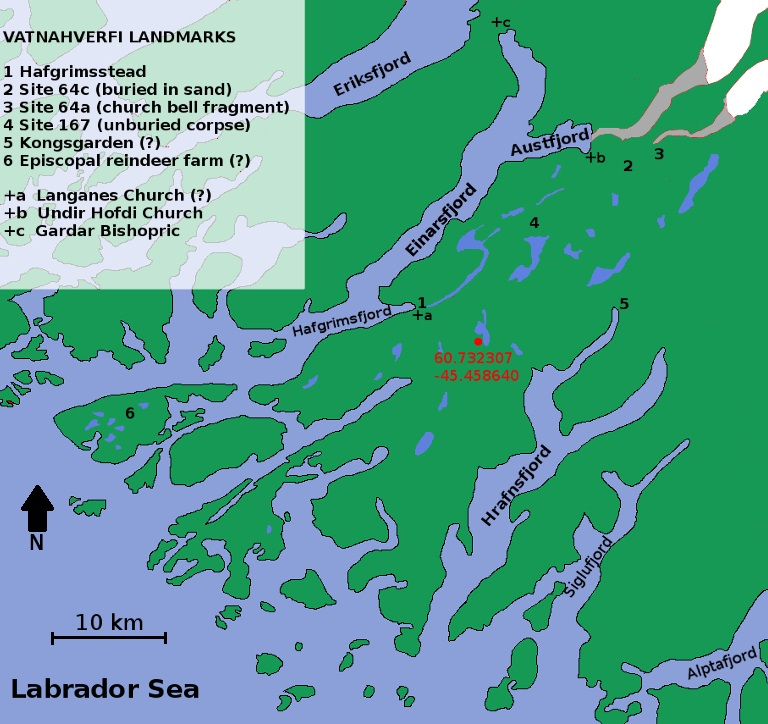 A map showing some landmarks in the Norse Greenland Vatnahverfi district, circa 1000-1450 AD.